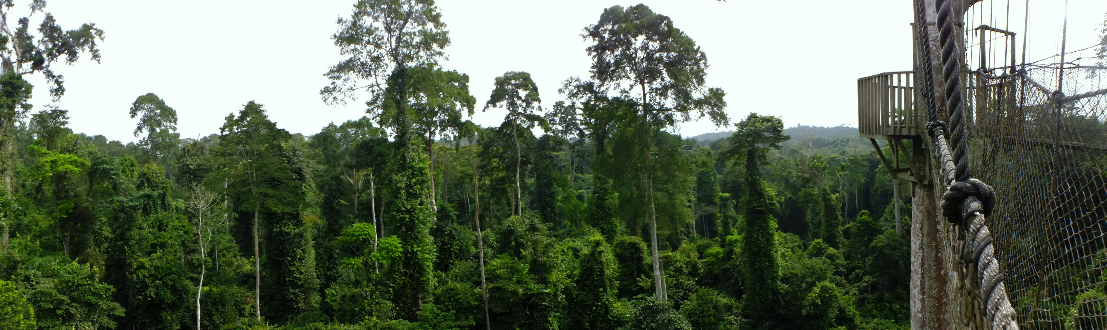 central region, rainforest